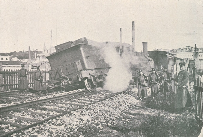 Locomotive derailed by striking railway workers in the Alcântara area, part of the city of Lisbon, in Portugal. This image was published on the Ilustração Portuguesa magazine No. 414, of the 26th January 1914, scanned by the Hemeroteca Municipal de Lisboa.